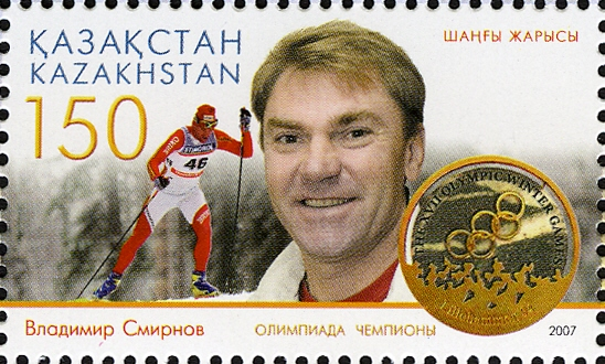 Olympic Champions from Kazakhstan - Vladimir Smirnov